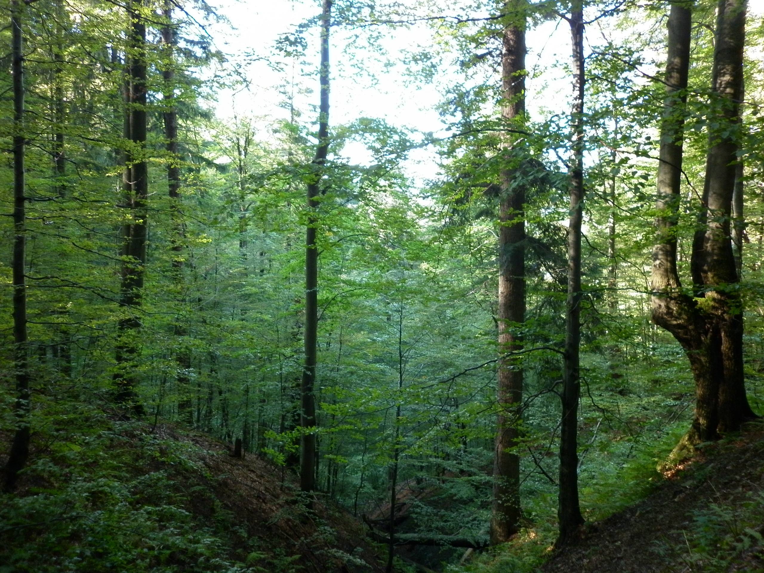 Nature reserve "Mazácký Grúnik" in Frýdek-Místek District, Czech Republic. Old carpathian forest with beech, spruce and fir.